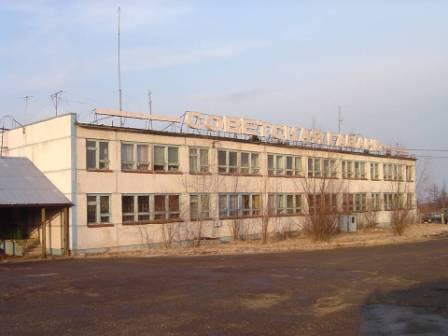 The Sity of Sovetskaya Gavan. Aeroport "Mai-Gatka"